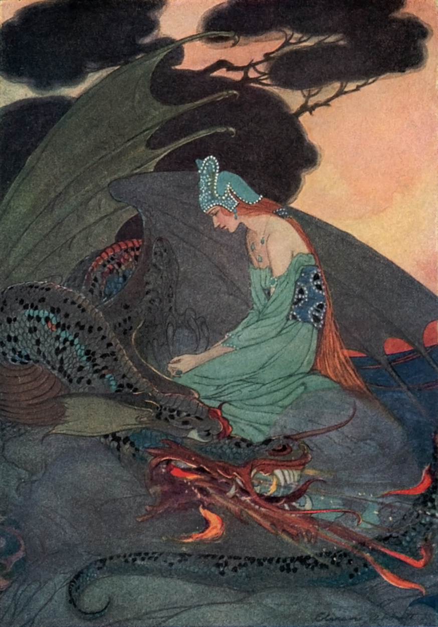 An illustration of the princess and dragon from The Two Brothers, a story published in Grimms' Fairy Tales